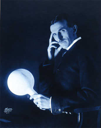 Serbian-American inventor Nikola Tesla demonstrating wireless power transmission, probably in his New York laboratory in the 1890s. The bulb is a prototype "fluorescent" light he invented consisting of a partially evacuated glass bulb with a single metal electrode. Nearby but not visible there is one of his Tesla coil high voltage oscillators which produces a radio frequency electric field. The electric field ionizes the gas in the bulb, causing it to glow similar to a neon light. Tesla invented a residential wireless lighting system in the 1889s.